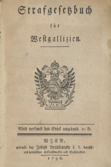 Cover of old Austrian penal code.